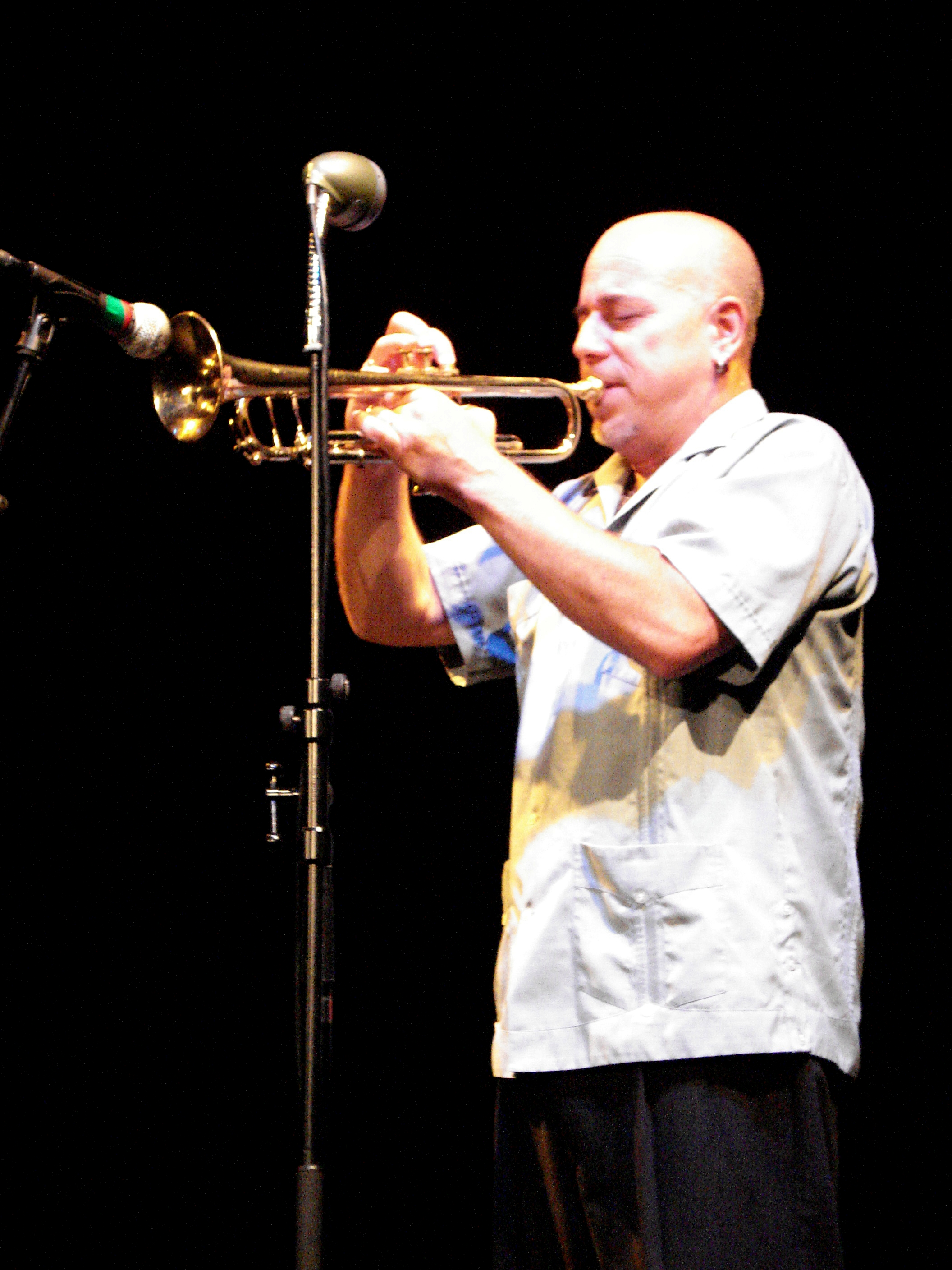 Steven Bernstein live at Saalfelden 2009